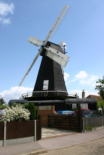 Herne windmill This smock mill is open on Sundays in the summer.